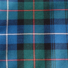 Robertson hunting acient